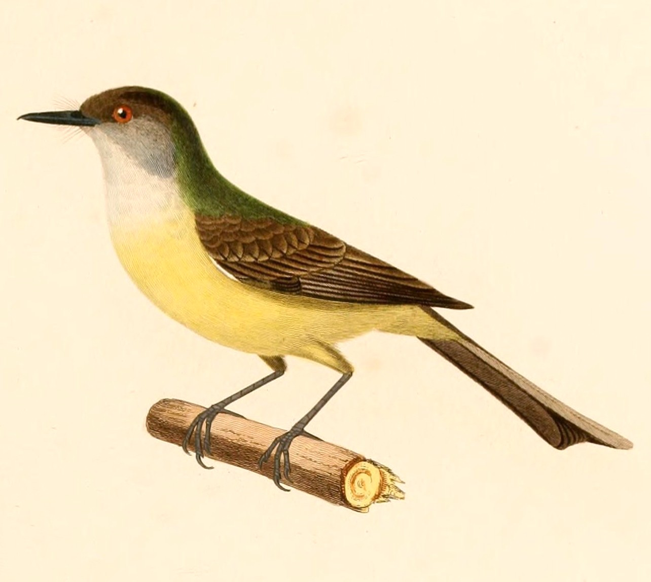 « Tyrannus tuberculifer » = Myiarchus tuberculifer (Dusky-capped Flycatcher)